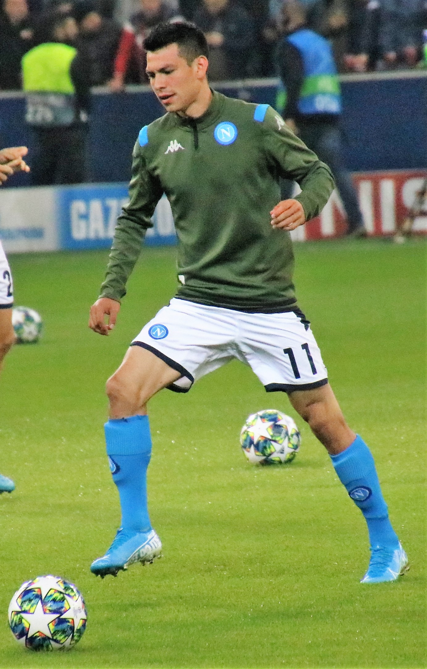 3rd round UEFA Champions League